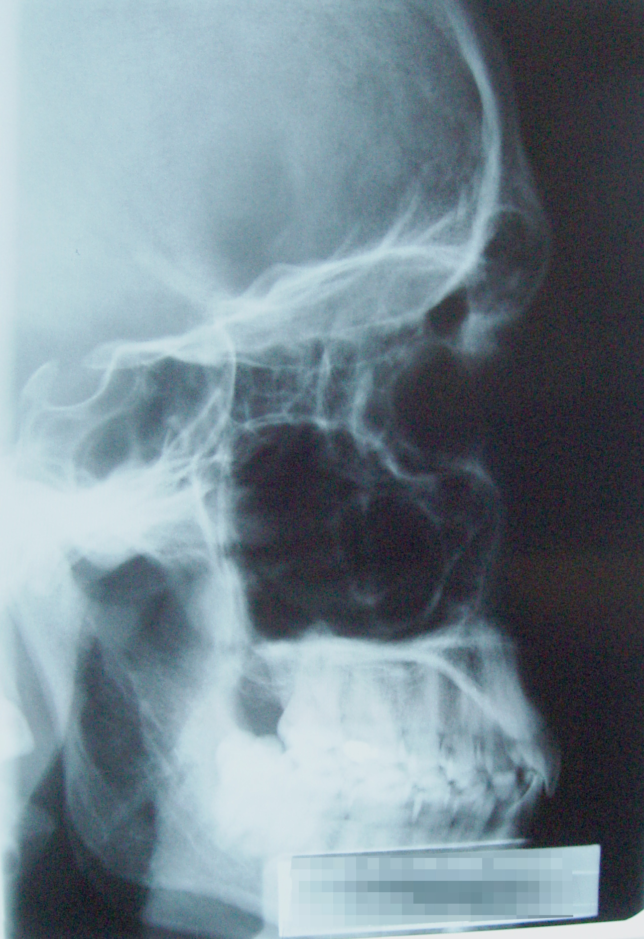 Lateral projection of the paranasal sinuses